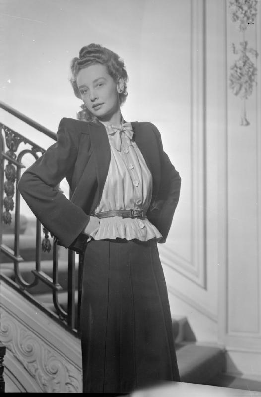 London Fashion Designers- the work of Members of the Incorporated Society of London Fashion Designers, London, England, UK, 1945 A model wears a navy blue spring suit by fashion designer Madame Champcommunal of Worth. The striped blouse is yellow and white, with a 'tucked basque', and is worn with a stitched belt. The blouse also has flower-shaped buttons and a bow at the neck.